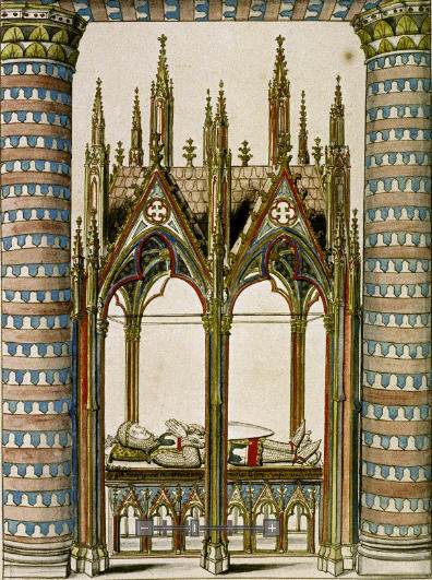 Enguerrand IV of Coucy